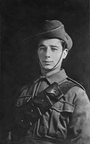 AWM Caption: 2870, PRIVATE SAMUEL GEORGE PEARSE, MM, 2ND MACHINE GUN COMPANY. LATER PROMOTED TO CORPORAL HE WAS DISCHARGED FROM THE AIF IN BRITAIN (1ST MACHINE GUN BATTALION) ON 1919-07-18. PEARSE THEN JOINED THE 45TH BATTALION, ROYAL FUSILIERS, FOR ACTION IN RUSSIA (REGIMENTAL NUMBER 133002). AS A SERGEANT HE WAS KILLED IN ACTION NORTH OF EMTSA ON 1919-08-29 AND POSTHUMOUSLY AWARDED THE VICTORIA CROSS.